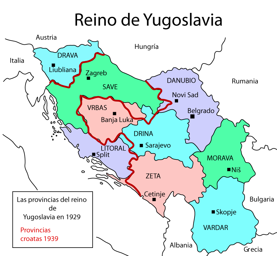 Administrative division of Kingdom of Yugoslavia.